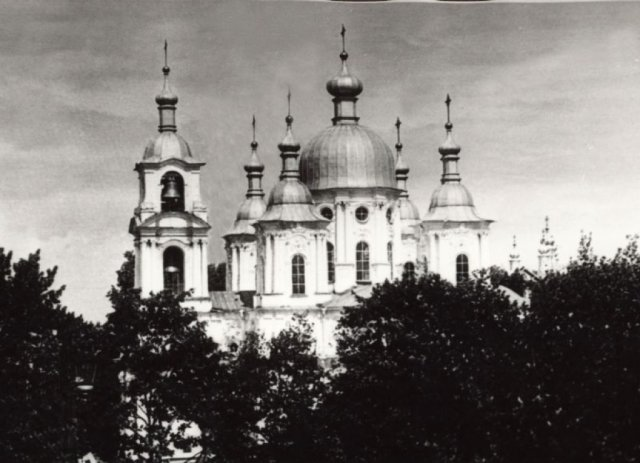 Saint Petersburg (Russia), Strelna, Coastal Monastery of St. Sergius